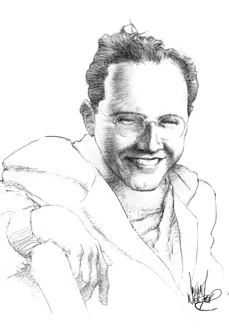 Portrait of comics artist Lou Fine by Michael Netzer from Portraits of the Creators Sketchbook.